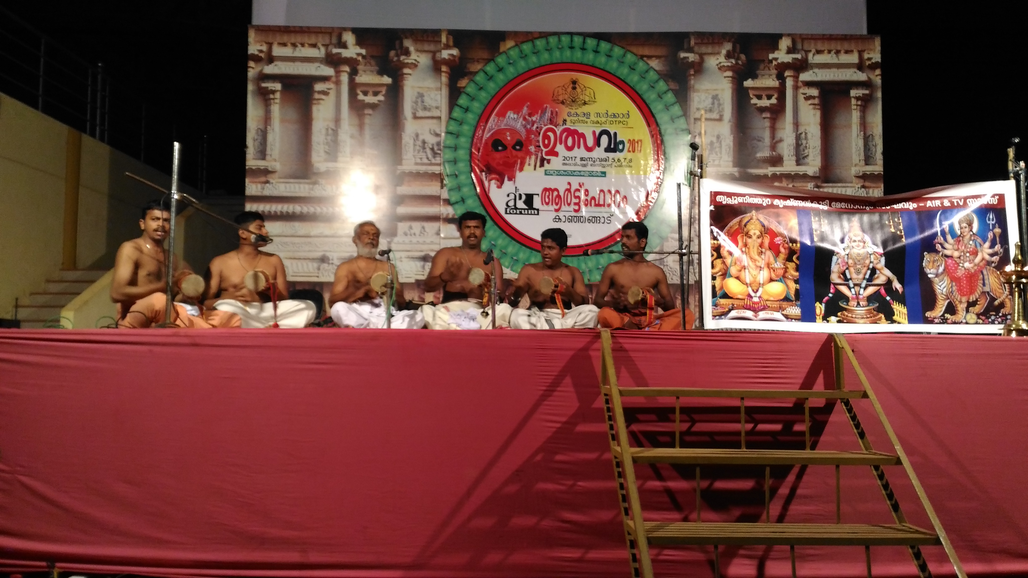 Sasthampattu - Tripunitura Krishnankutty Menon and Party - Utsavam2017, Kanhangad